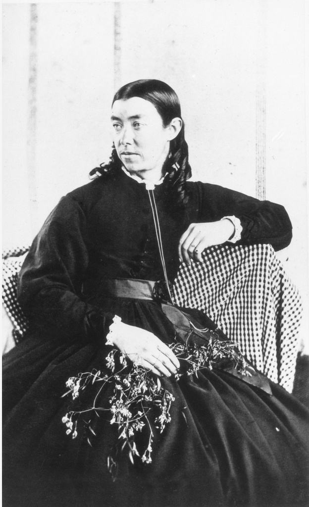 A seated studio portrait of writer Ellen Liston.